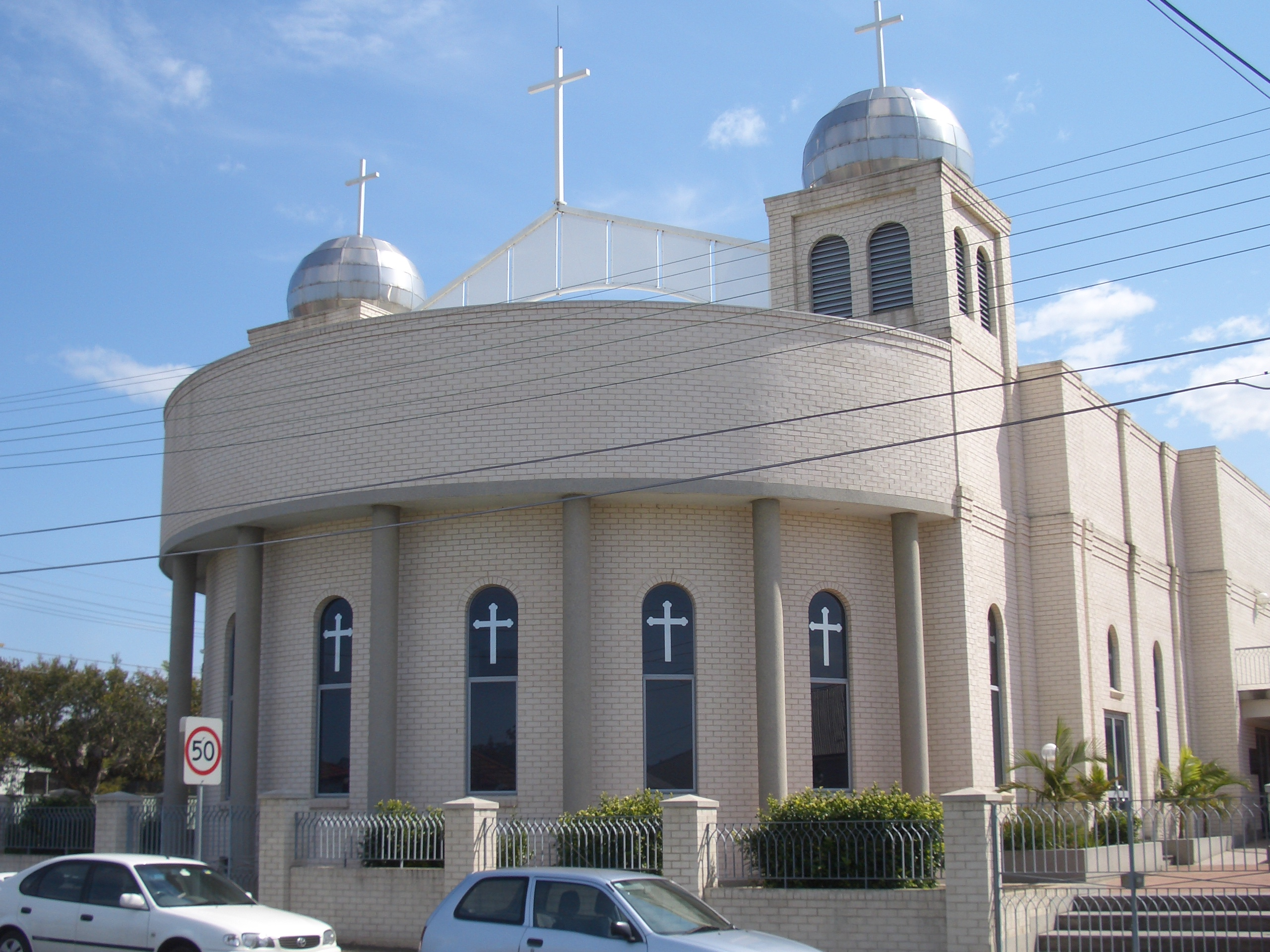 St Ephraim Syrian Orthodox Cathedral, Lidcombe, Sydney